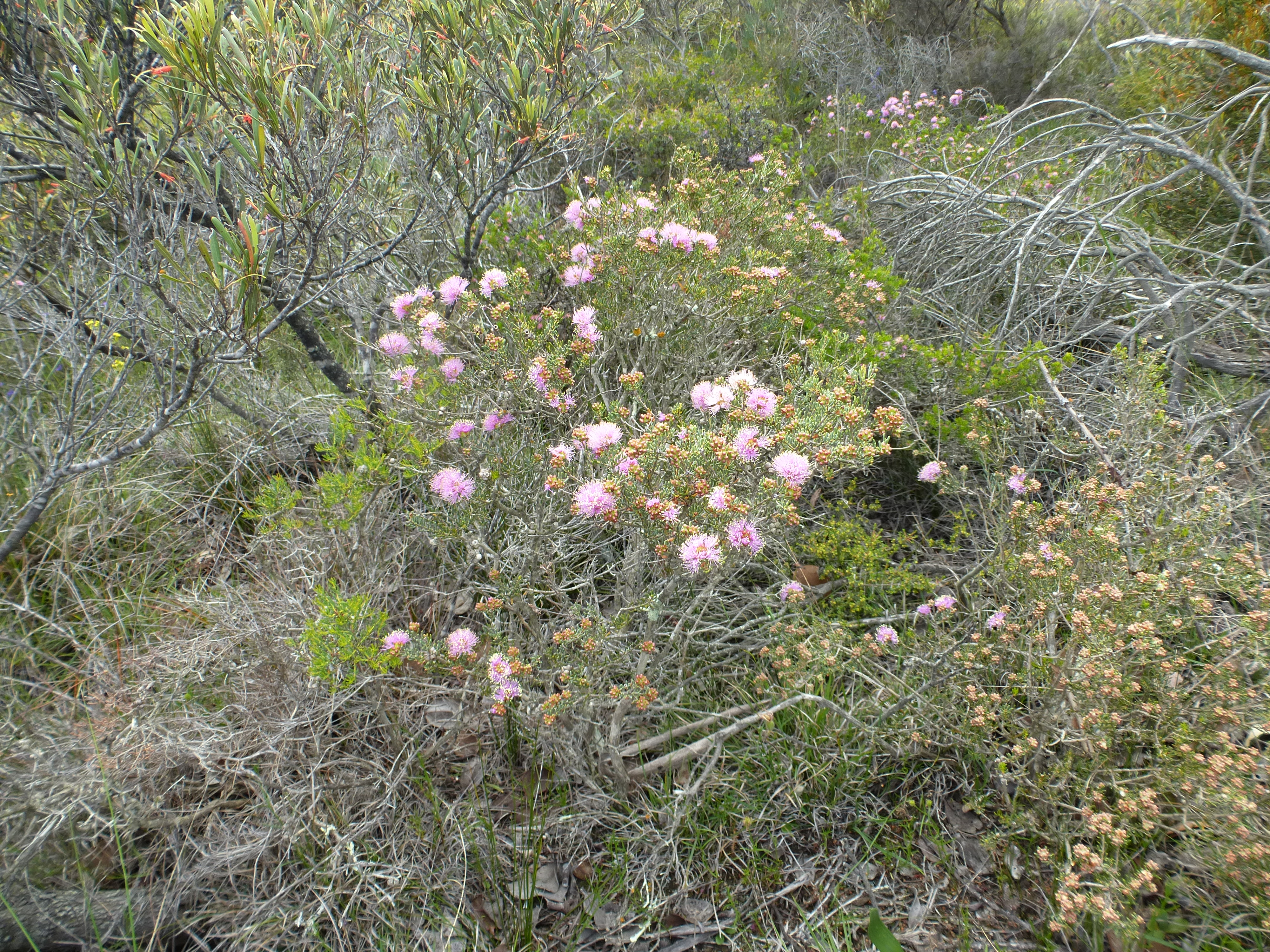 Melaleuca carrii growing 90 km west of Esperance